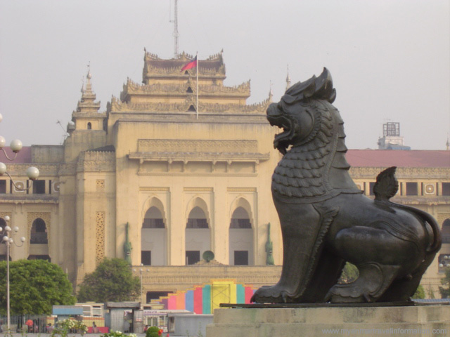 Chinthe in front of Yangon City Hall, seen from Maha Bandoola Park